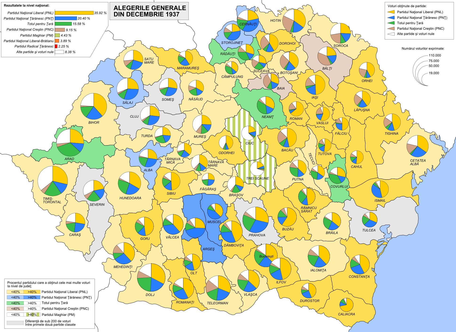 The results of the 1937 Romanian general election at county level.